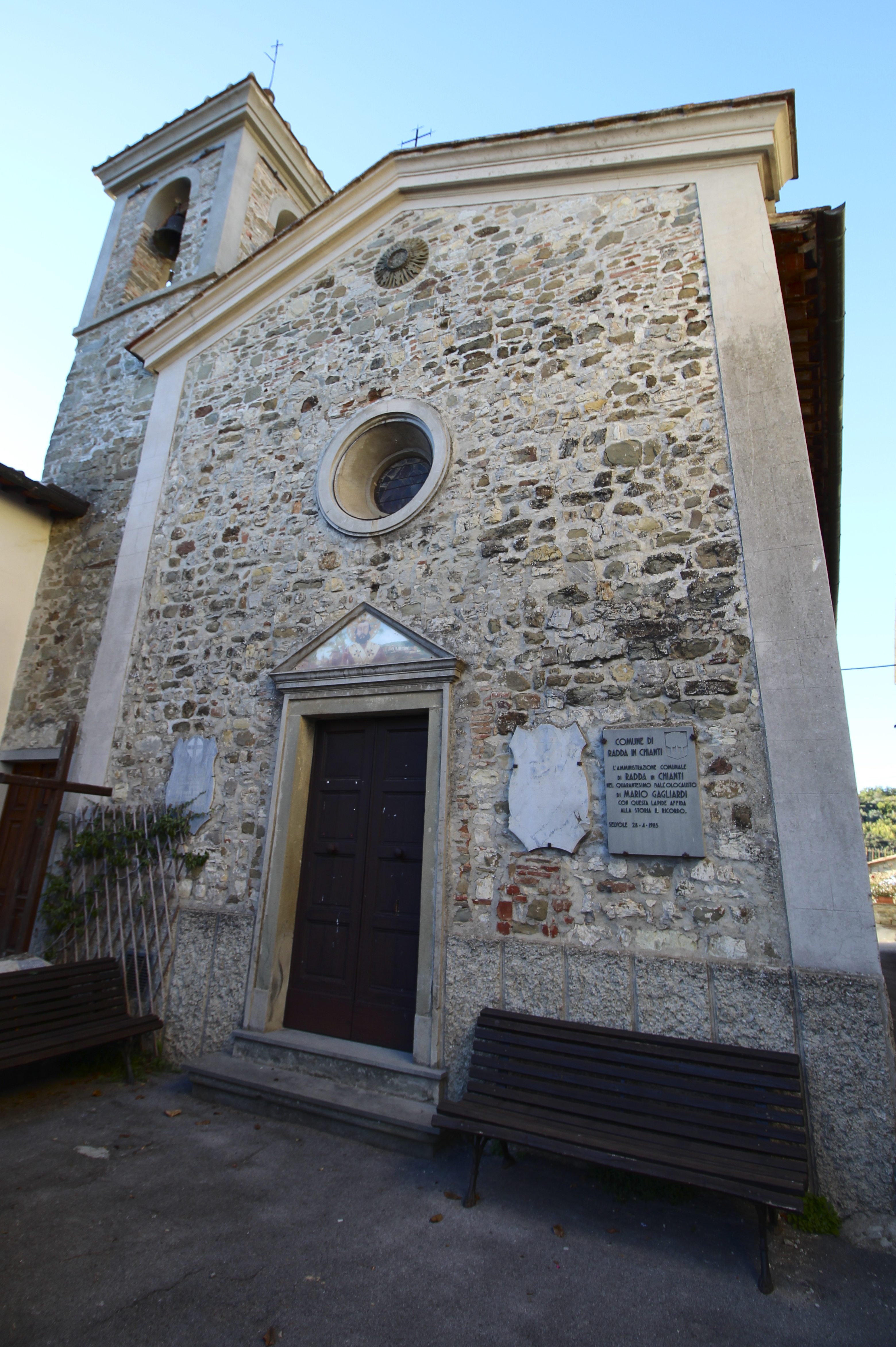 Church San Niccolò, Selvole, Radda in Chianti, Province of Siena, Tuscany, Italy